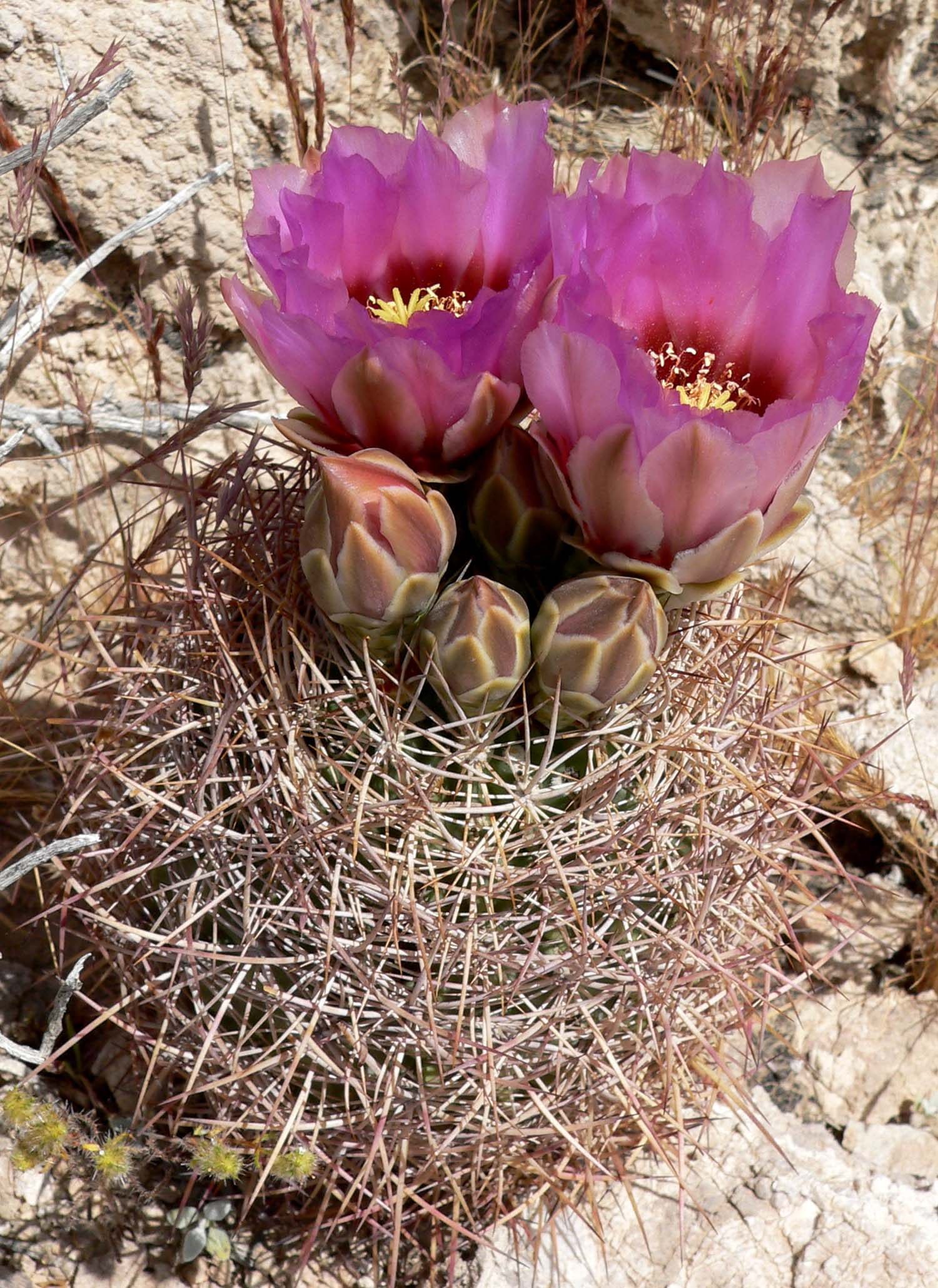 Photo of Echinomastus johnsonii on slopes of Frenchman Mountain east of Las Vegas, Nevada